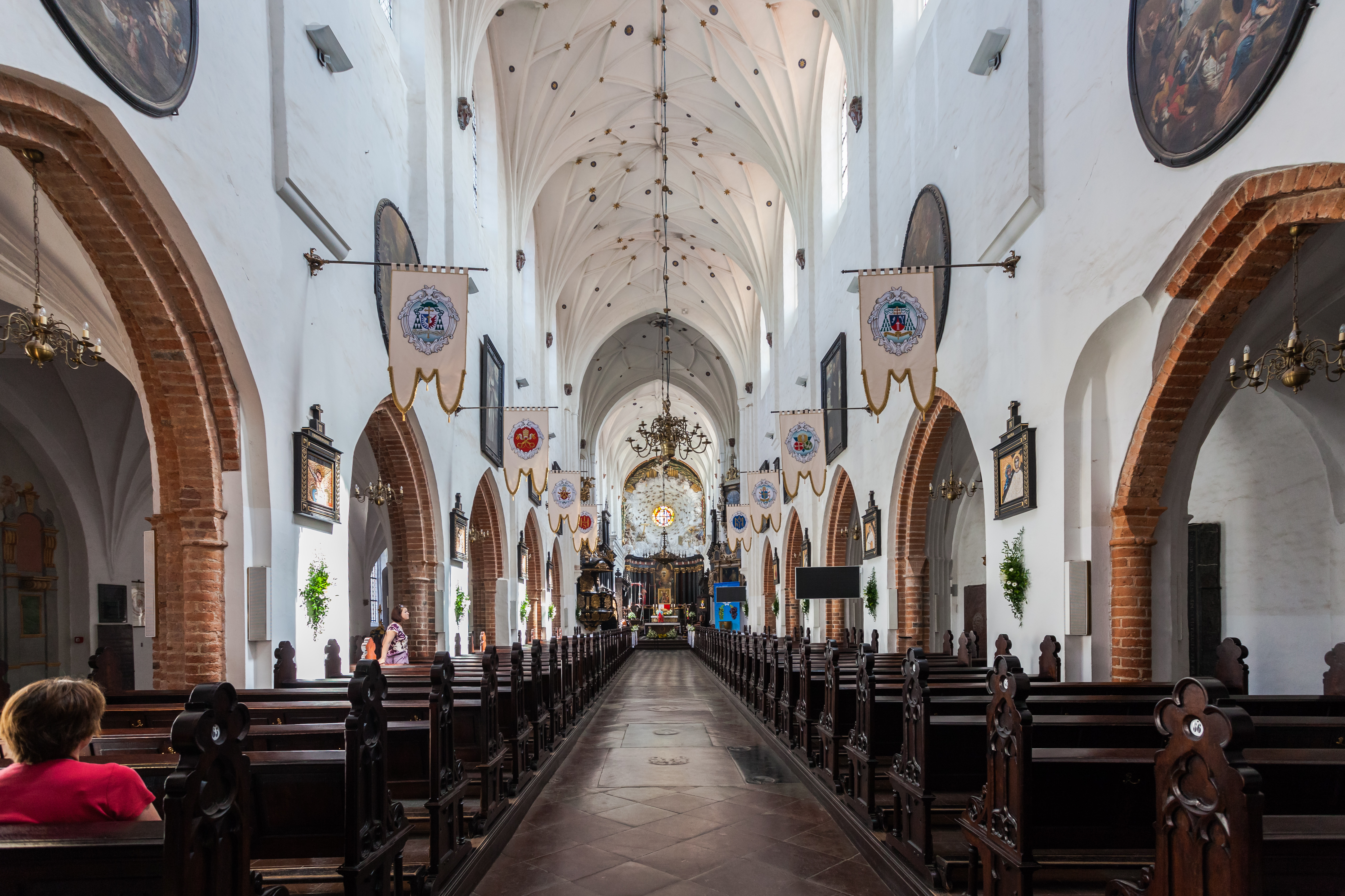 Oliwa Cathedral, Gdansk, Poland